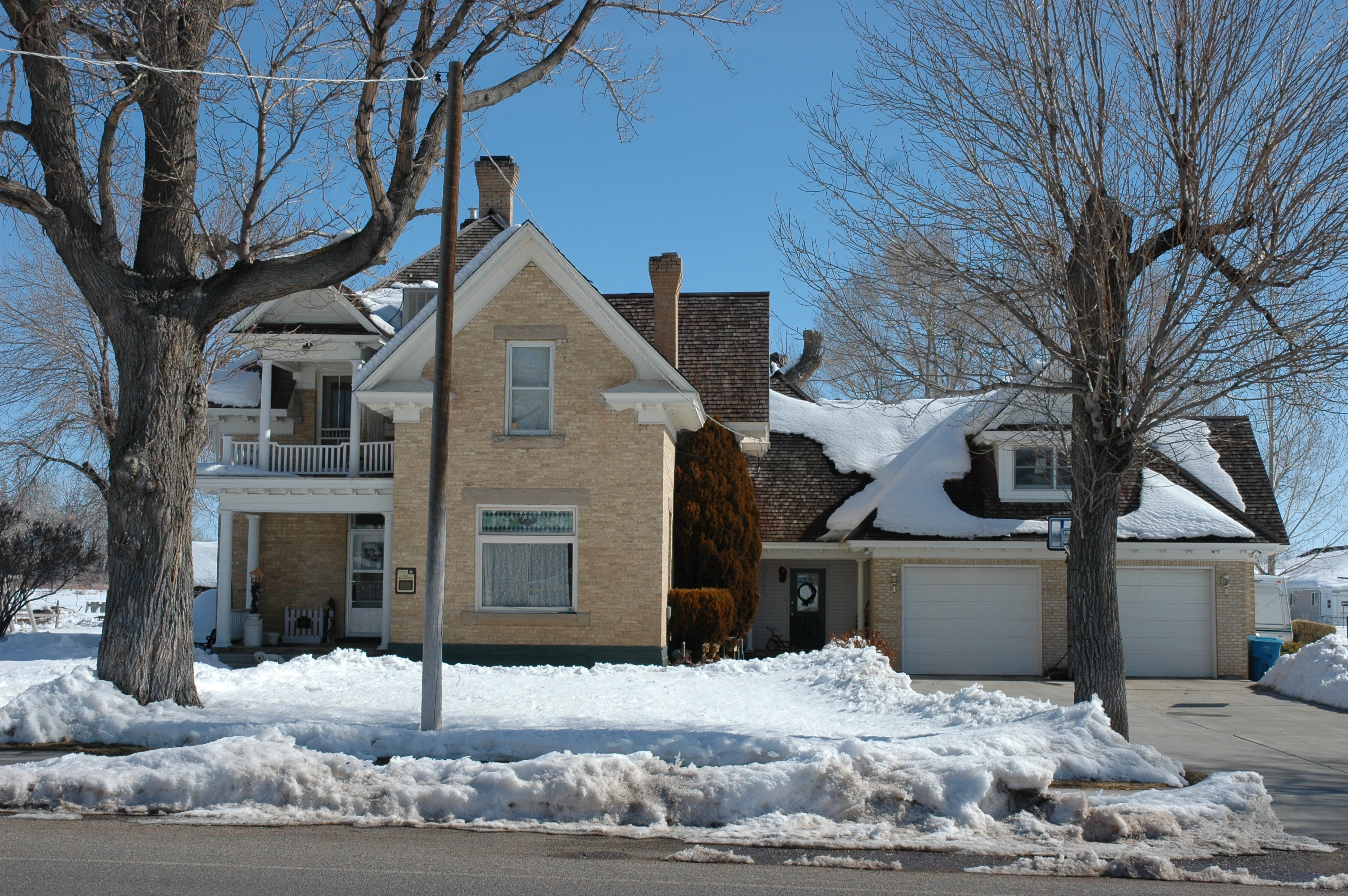 The Peter Johansen House, a historic home in Castle Dale, Utah, United States.